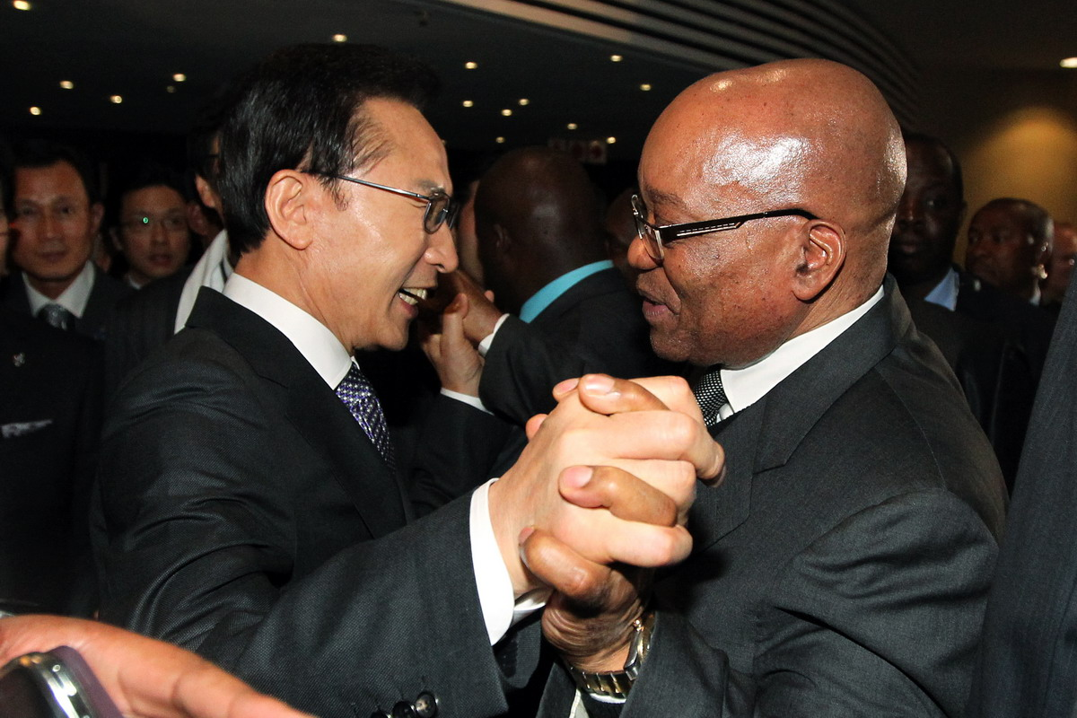 President Lee Myung-bak, members of the PyeongChang Bidding Committee and with a delegation of Pyeongchang residents cheer as Pyeongchang was selected as the Games' host at the IOC general assembly in Durban, South Africa. Pyeongchang will host the 2018 Winter Olympics after beating off Munich and Annecy as the IOC vote results are announced in Durban.